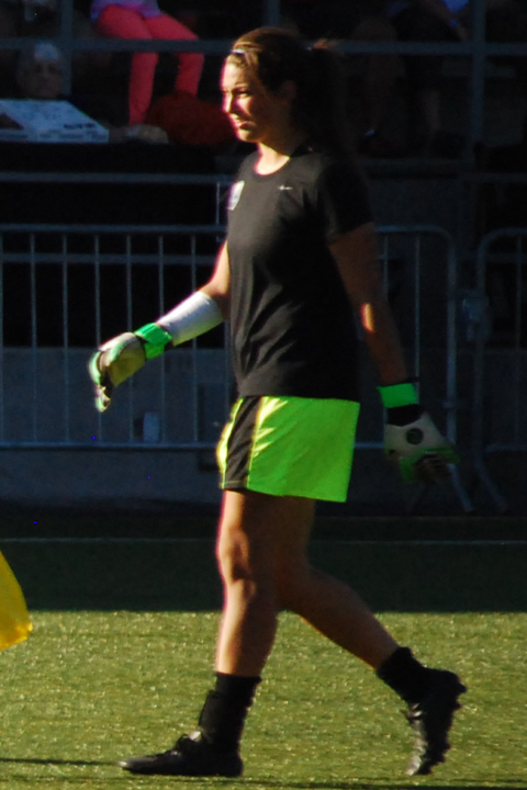 Haley Kopmeyer trains with the Seattle Reign FC before a match against the Chicago Red Stars at Starfire Stadium in Tukwila, Washingon on July 25, 2013